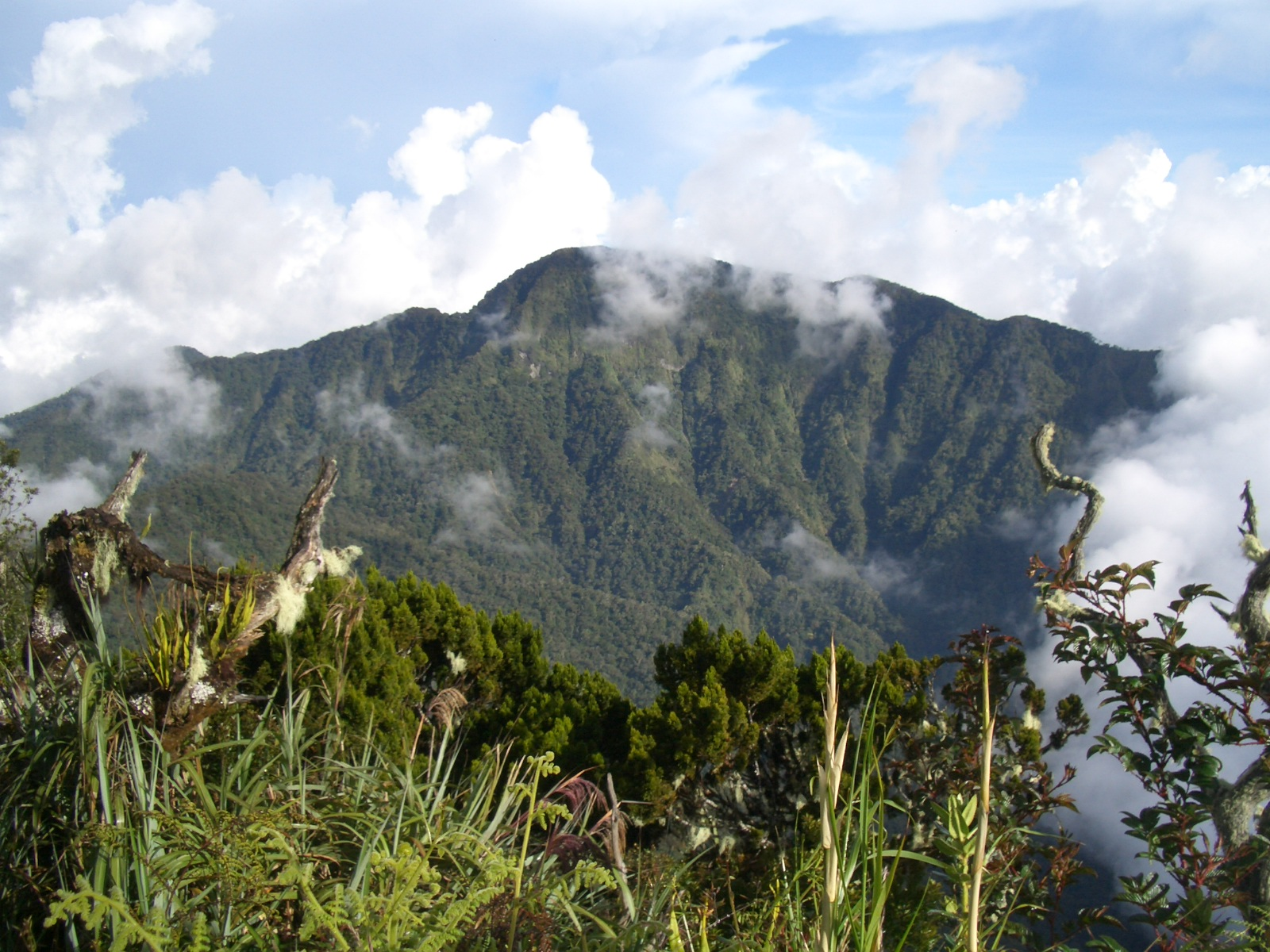 The peak of Mount Dulang-dulang, the second highest mountain of the Philippines, seen from the peak of Mount Kitanglad.